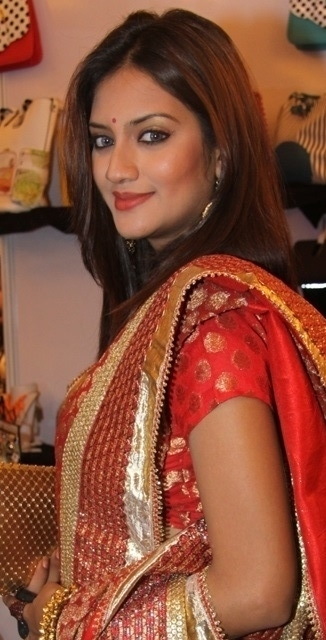 SouBoyy meets Nusrat Jahan at FIERAA, a fashion and lifestyle exhibition held at Sapphire Banquet 2, Calcutta .